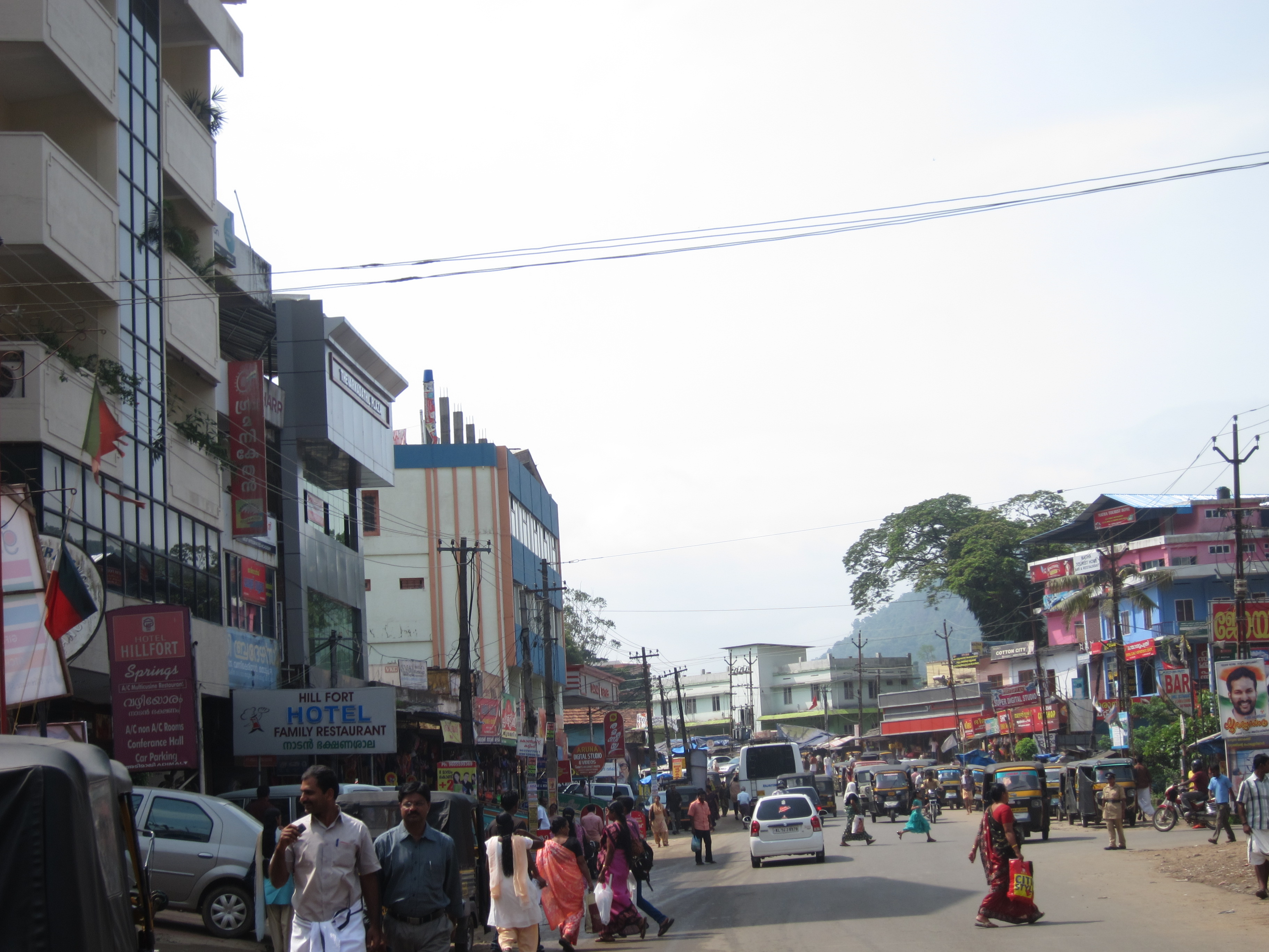 Adimali - അടിമാലി Idukki - ഇടുക്കി